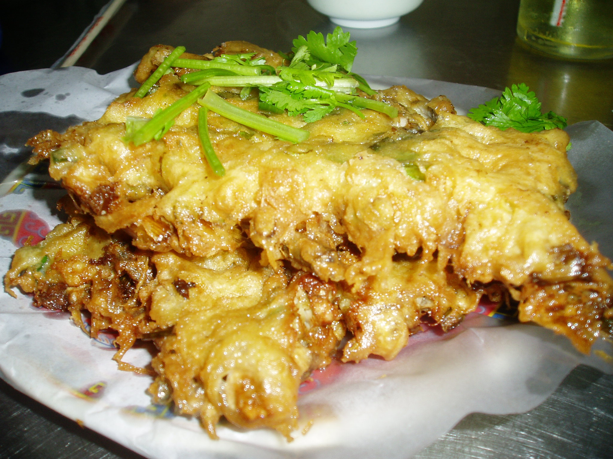 Oyster omelette in Hong Kong style